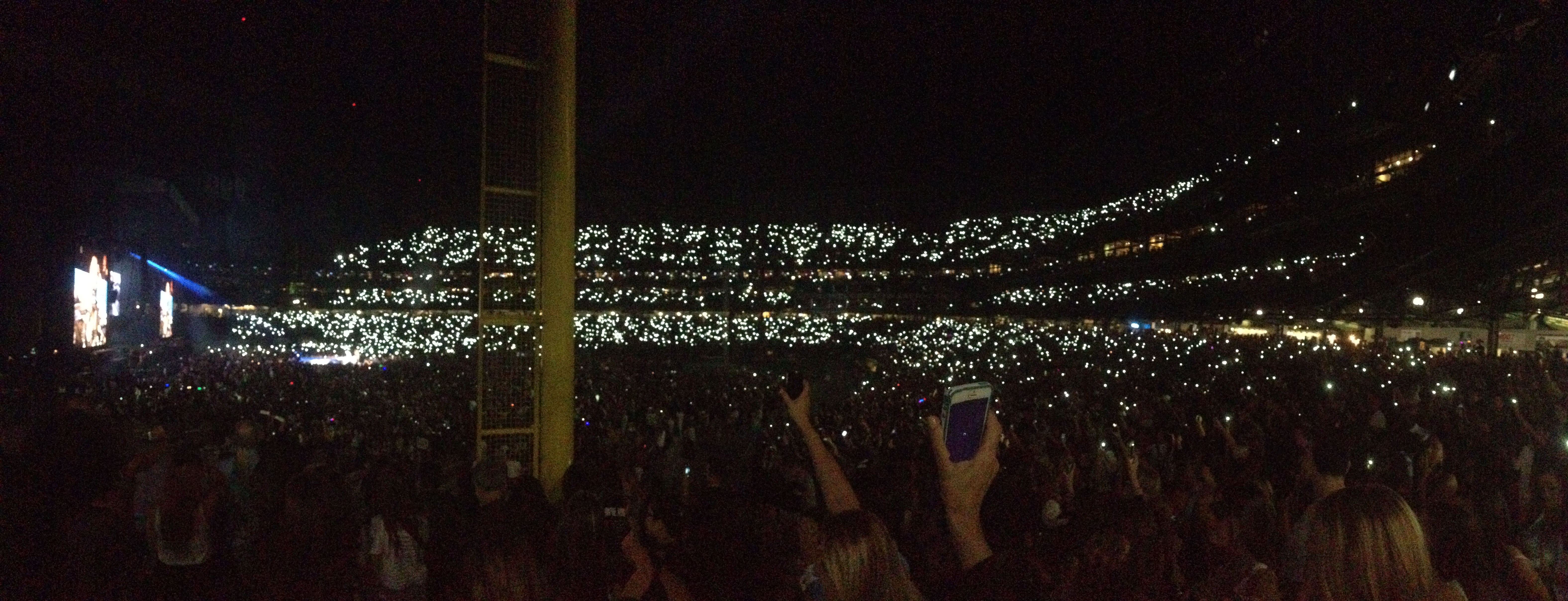 An image of a lit up Safeco Field Stadium in Seattle, Washington, during the Beyoncé and Jay-Z "On the Run Tour" concert on July 30, 2014.